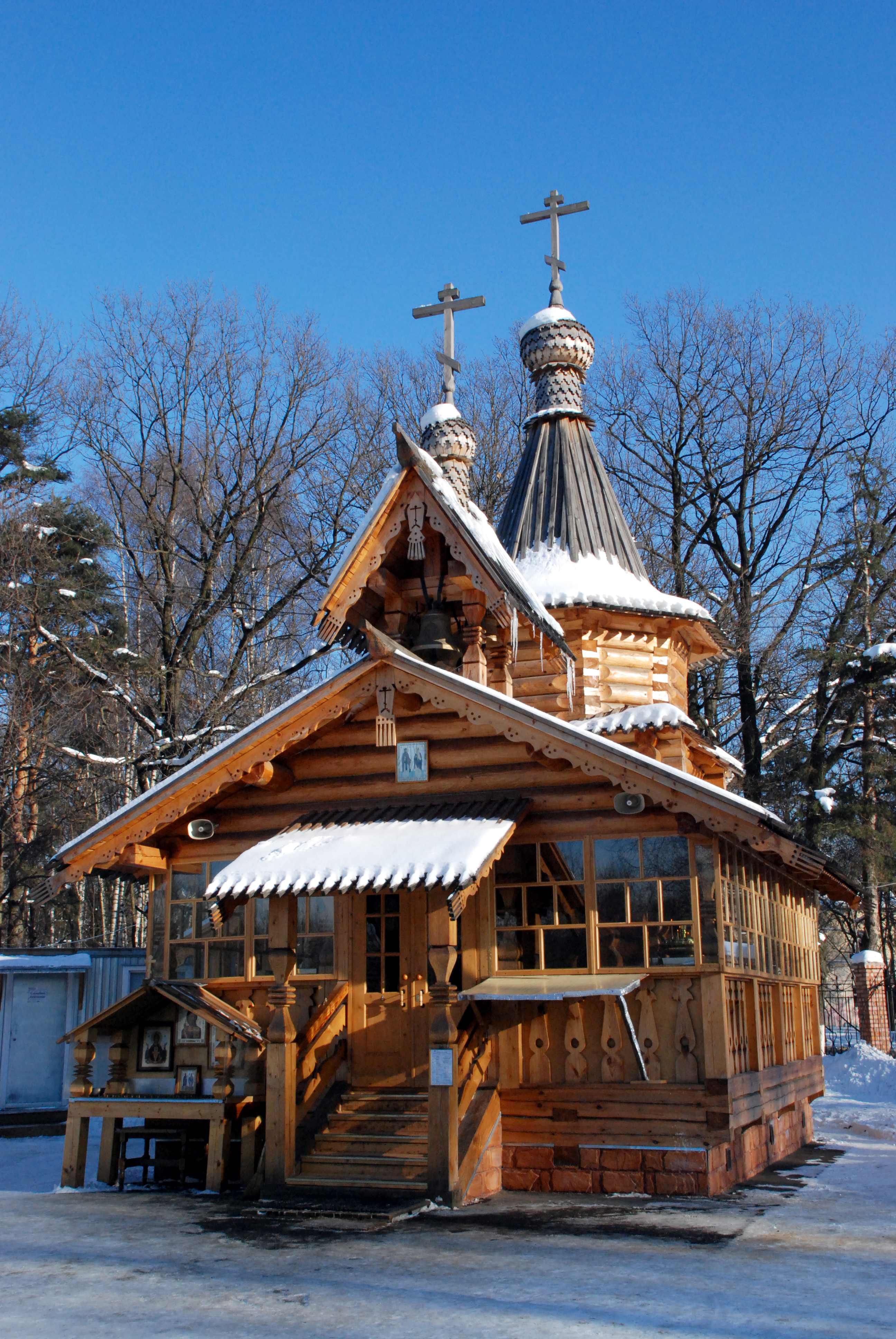 Church of Saints Cyril and Methodius (Khimki)